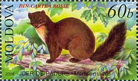 Stamp of Moldova